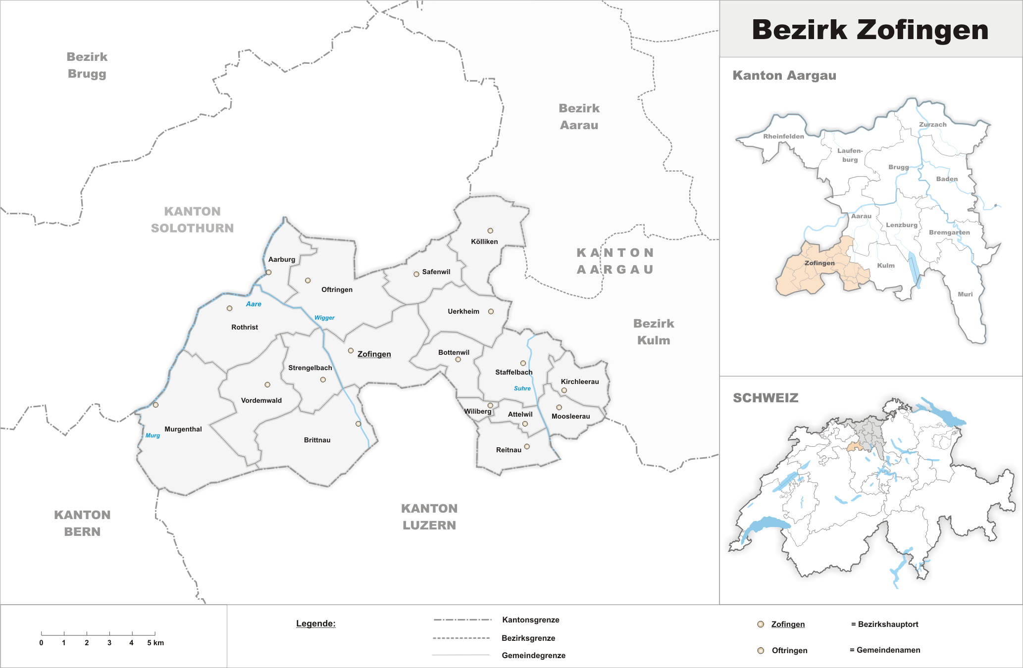 Municipalities in the district of Zofingen to 2010